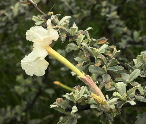 Flower and foliage of Catophractes alexandri from "Flora of Zimbabwe" - Photo by Bart Wursten